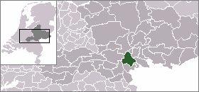 Locator map of Dutch municipalities in Gelderland (LocatieLingewaard.png)